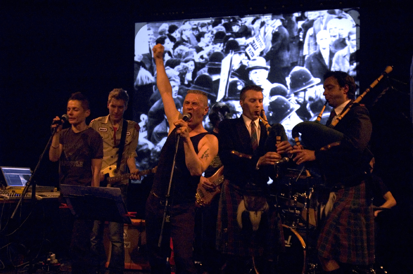 Performance Artwork